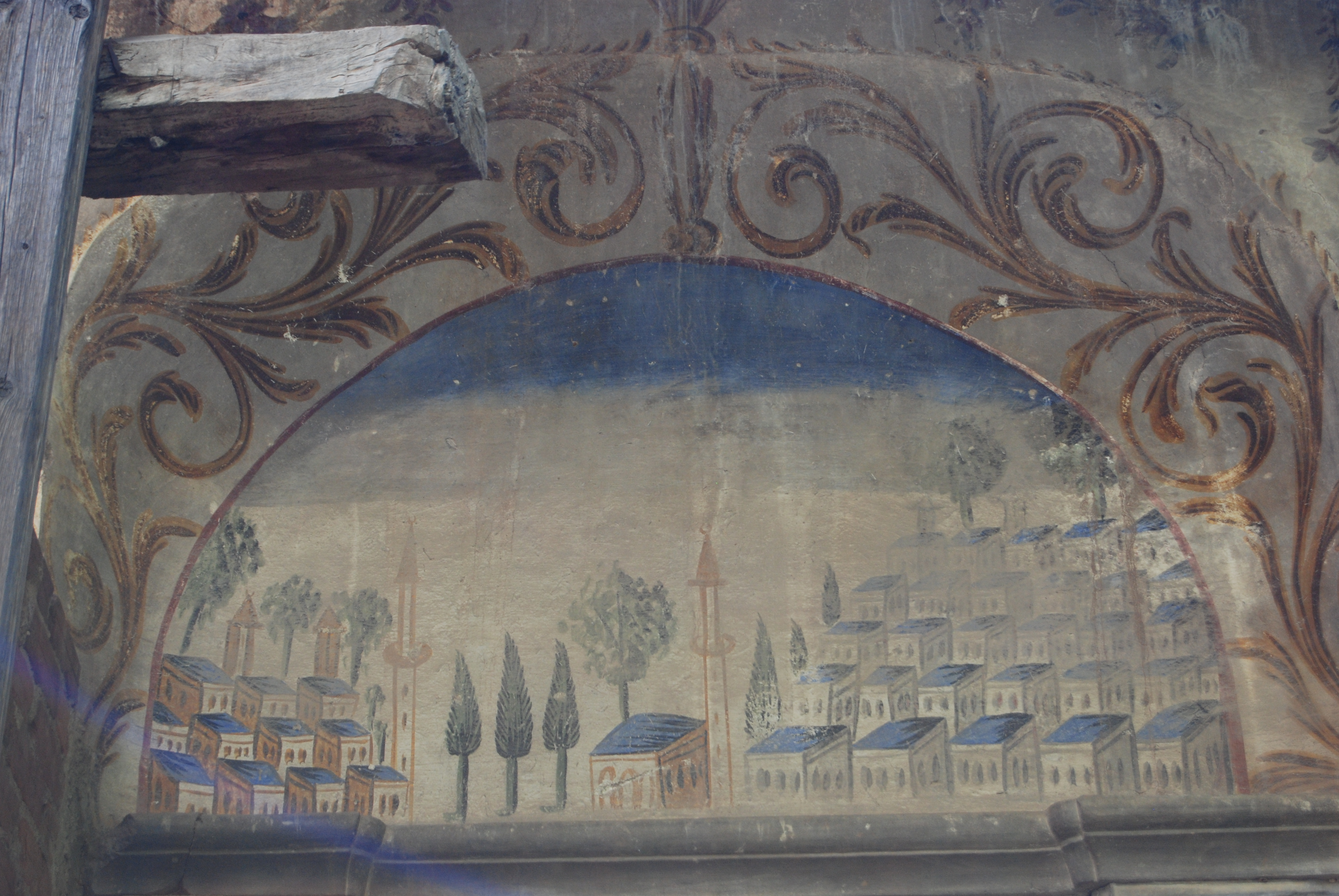 A fresco depicting the town of Drama on the wall of a mosque in Drama, Greece